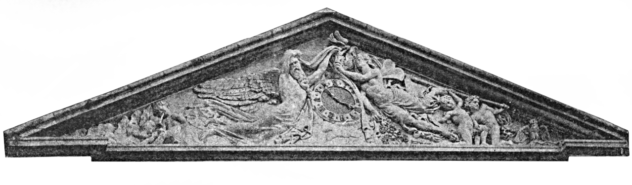 The pediment of the Castle of Meslay-le-Vidame, made by Jean-Joseph Carriès and Jean-Alexandre Pézieux.